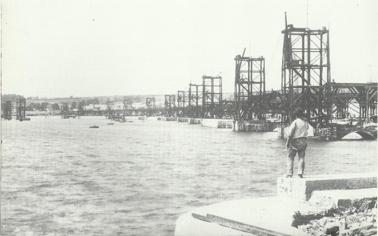 Dock No.1 of Barry Docks ready for opening on 18th July 1889, "Walkertown" in centre distance named, after engineer Thomas Andrew Walker (1828-1889) and subsequently named Barry at that area